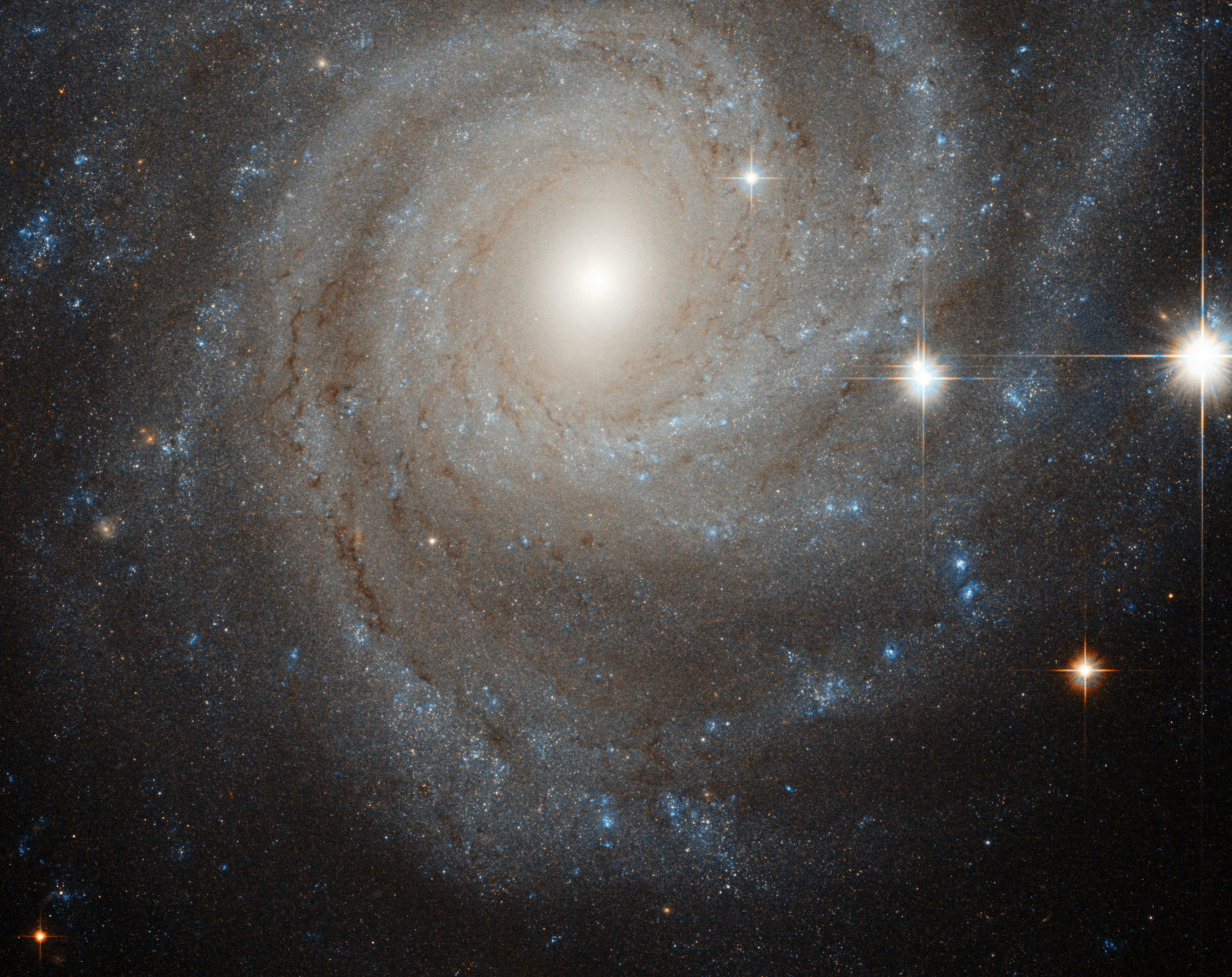 NGC 3344 is a glorious spiral galaxy around half the size of the Milky Way, which lies 25 million light-years distant. We are fortunate enough to see NGC 3344 face-on, allowing us to study its structure in detail. The galaxy features an outer ring swirling around an inner ring with a subtle bar structure in the centre. The central regions of the galaxy are predominately populated by young stars, with the galactic fringes also featuring areas of active star formation. Central bars are found in around two thirds of spiral galaxies. NGC 3344’s is clearly visible here, although it is not as dramatic as some (see for example heic1202). The high density of stars in galaxies’ central regions gives them enough gravitational influence to affect the movement of other stars in their galaxy. However, NGC 3344’s outer stars are moving in an unusual manner, although the presence of the bar cannot entirely account for this, leaving astronomers puzzled. It is possible that in its past NGC 3344 passed close by another galaxy and accreted stars from it, but more research is needed to state this with confidence. The image is a combination of exposures taken in visible and near-infrared light, using Hubble’s Advanced Camera for Surveys. The field of view is around 3.4 by 3.4 arcminutes, or around a tenth of the diameter of the full Moon.